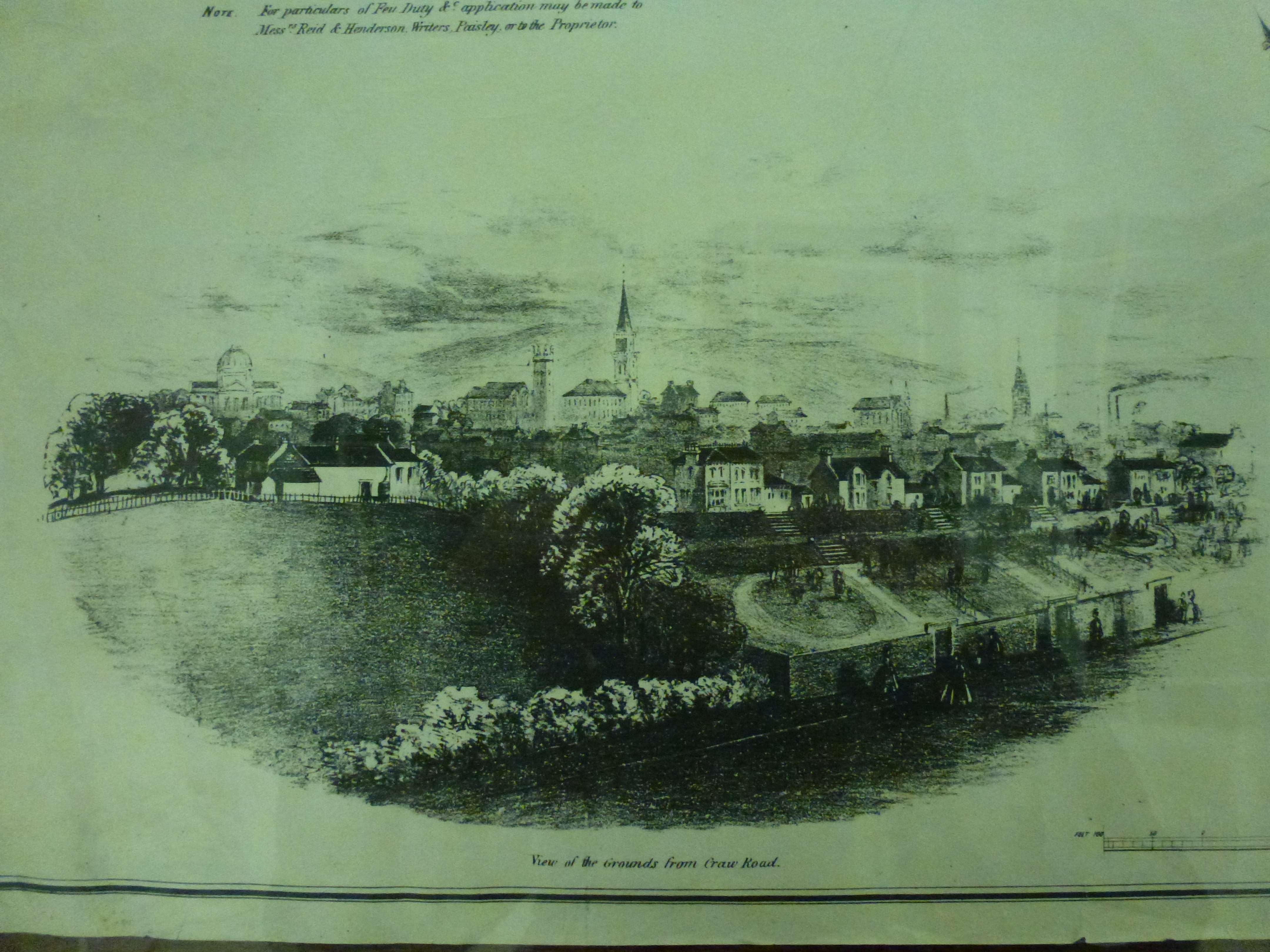 Castlehead as depicted on Wotherspoon's Feuing map of 1864, showing 'The Old House' and the first of the 19th century houses - Warriston, Rosemount, Wallace Bank, Greygables and Englethwaite.